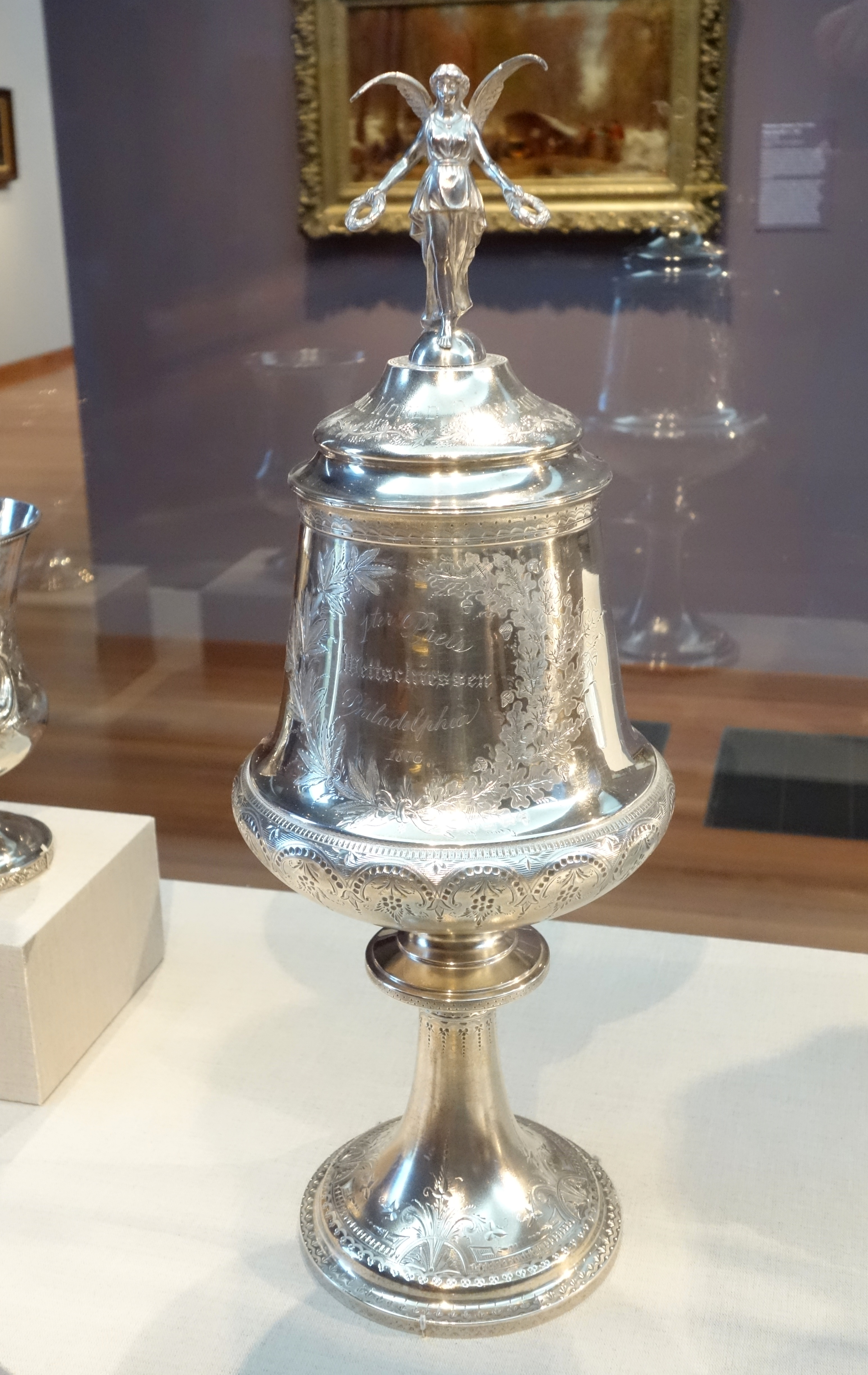 Exhibit in the De Young Museum, San Francisco, California, USA. This artwork is in the public domain because the artist died more than 70 years ago.